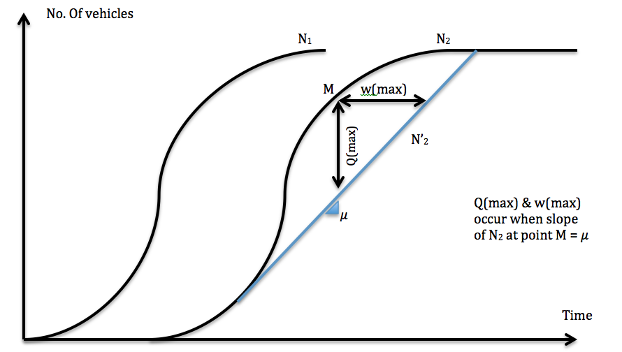 N-curves showing the point at which queue and delay are maximum.